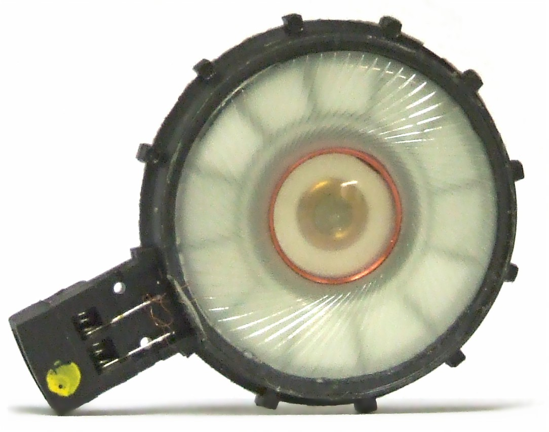 The transducer (speaker) from a pair of mid-priced headphones.